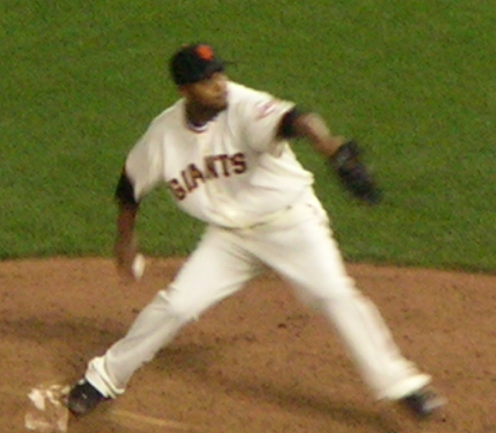 San Francisco Giants pitcher Ramón Ramírez at a home game against the Chicago Cubs. The Cubs won 8-6.